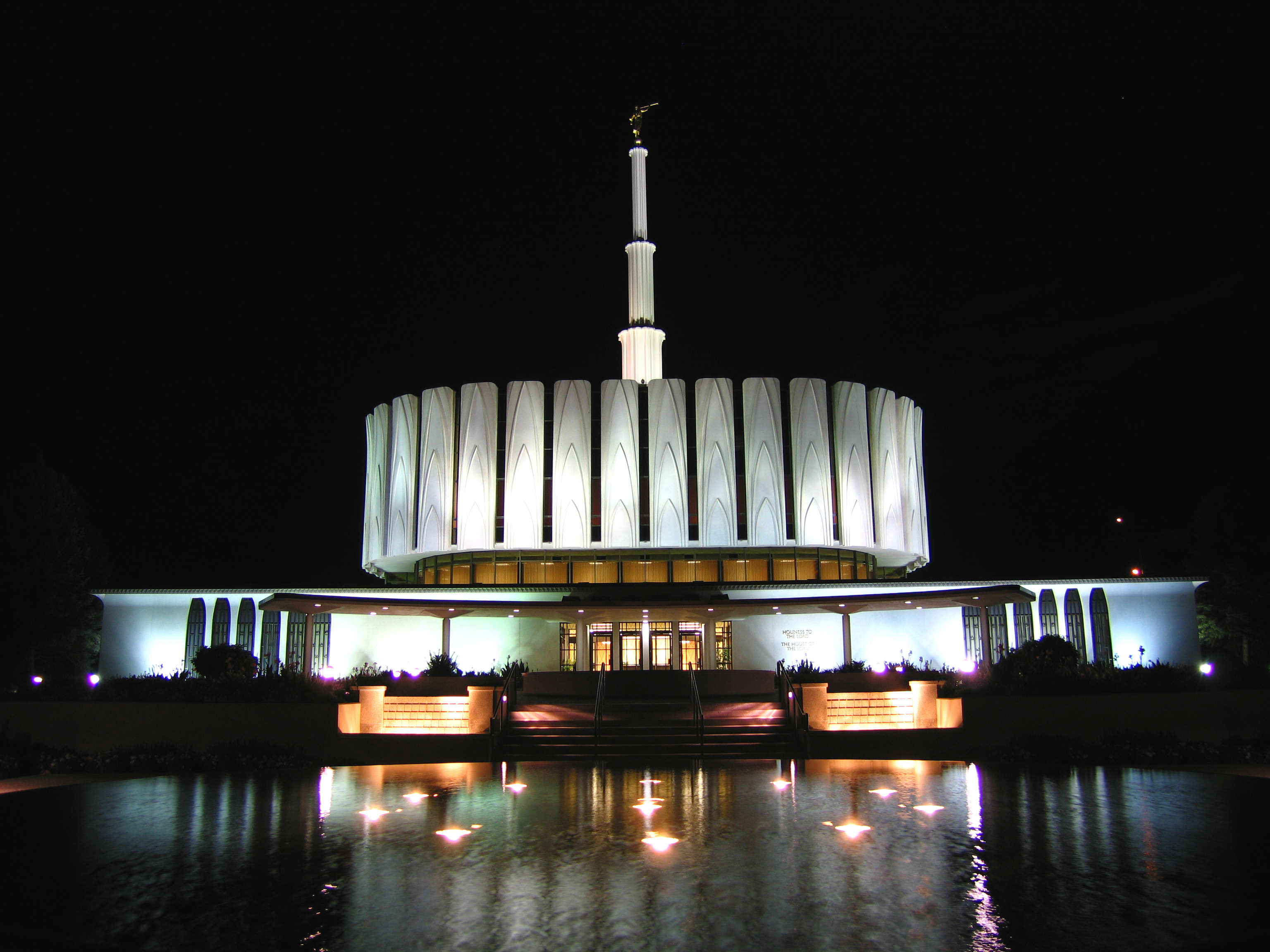 The Provo Utah Temple of The Church of Jesus Christ of Latter-day Saints. Photo by Ricardo630 Ricardo630 23:23, 27 August 2006 (UTC)